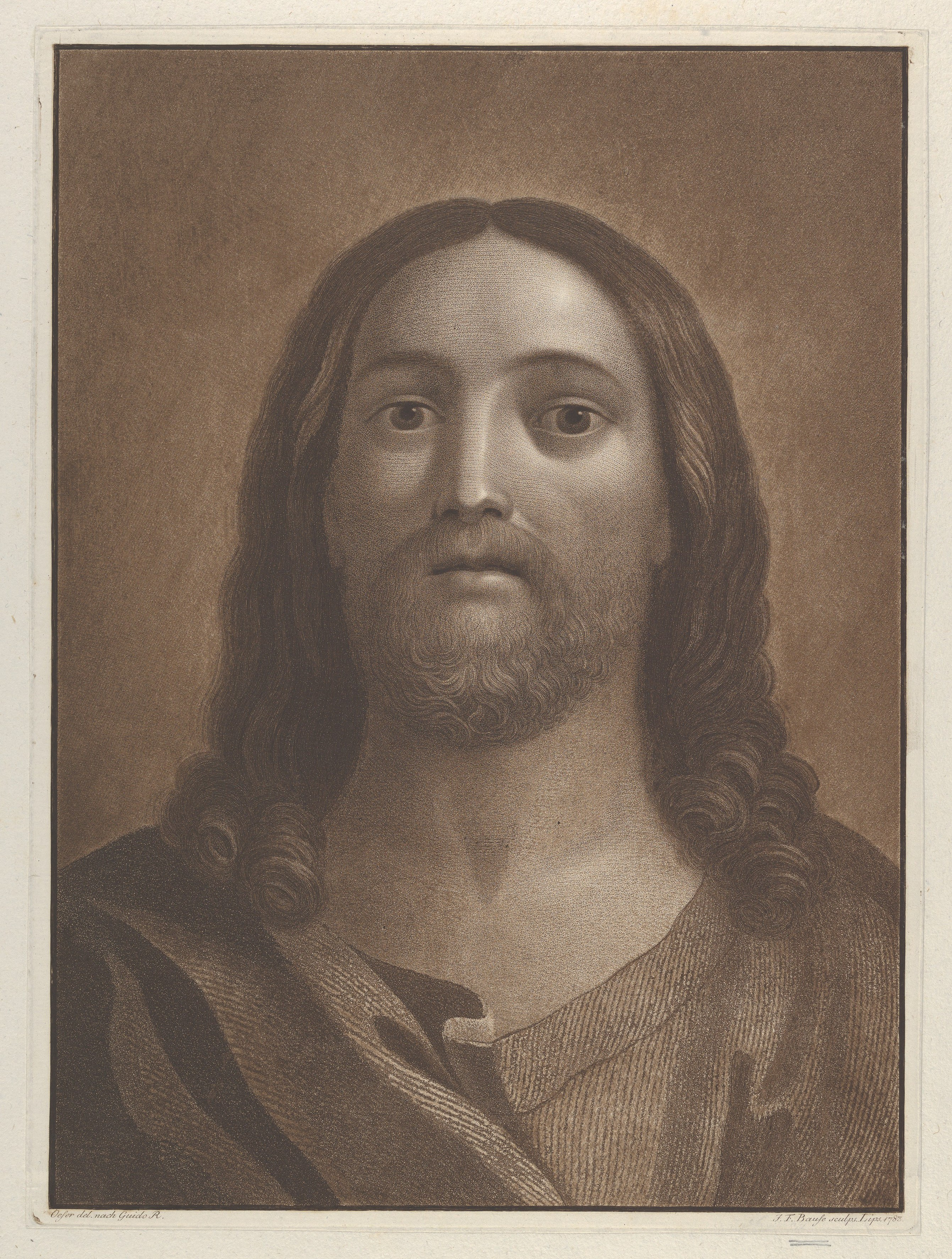 Print; Prints